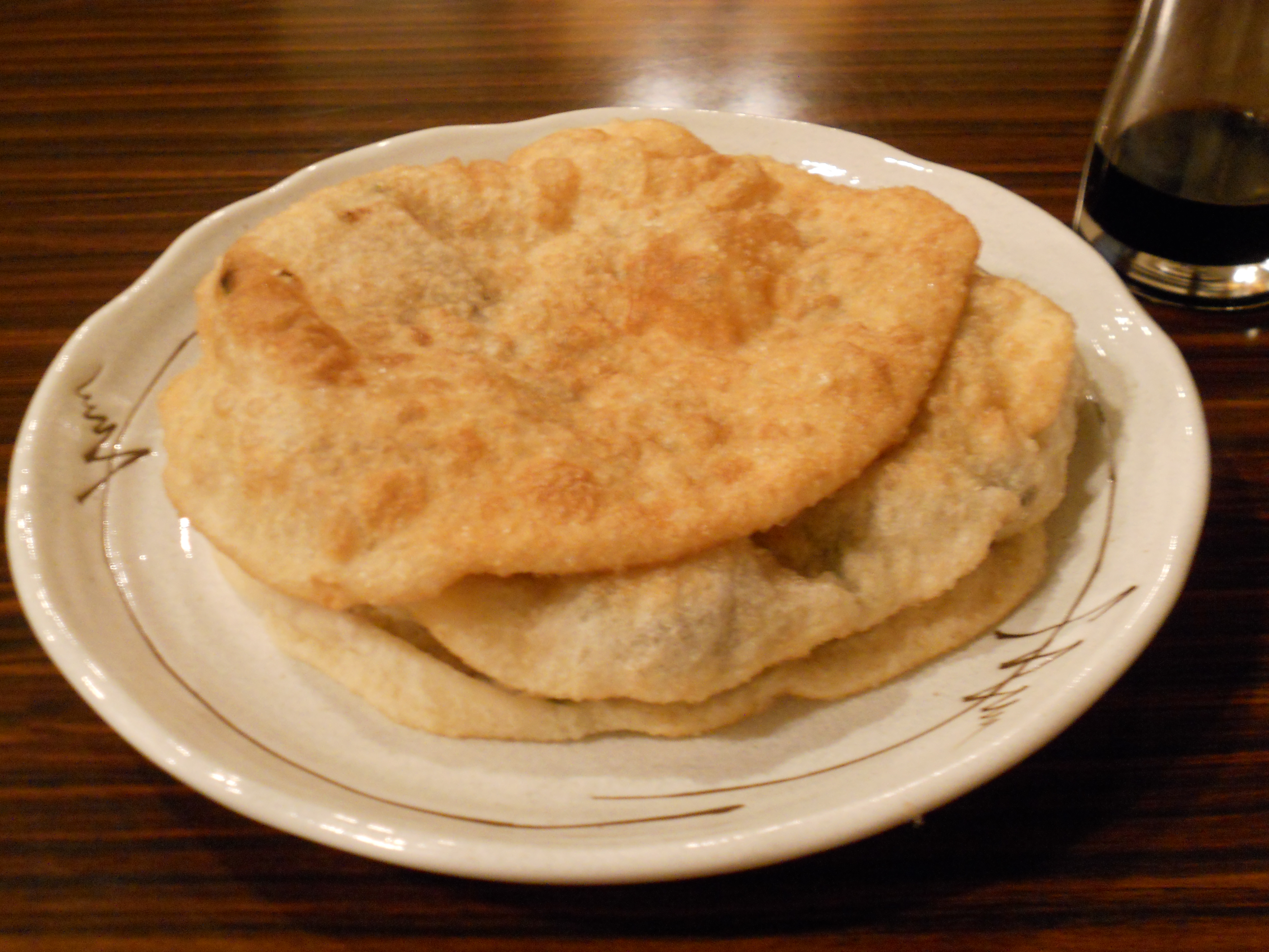 Khuushuur, Round style. This type is cooked by professional cookers Mongolian in Ulaanbaatar.